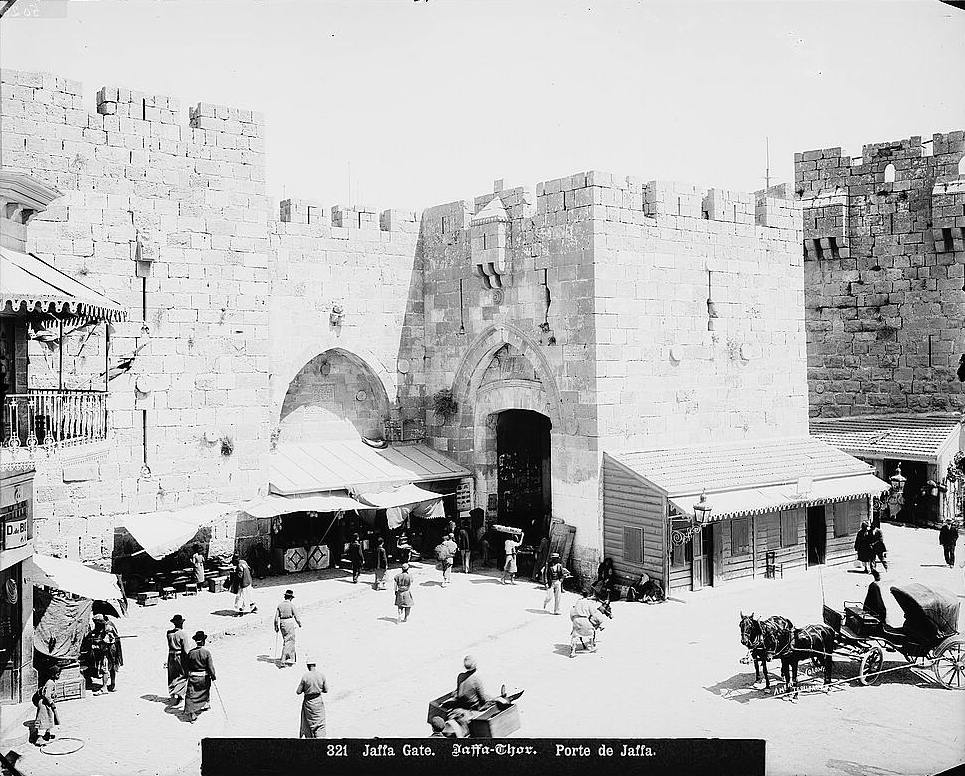 Jaffa Gate.